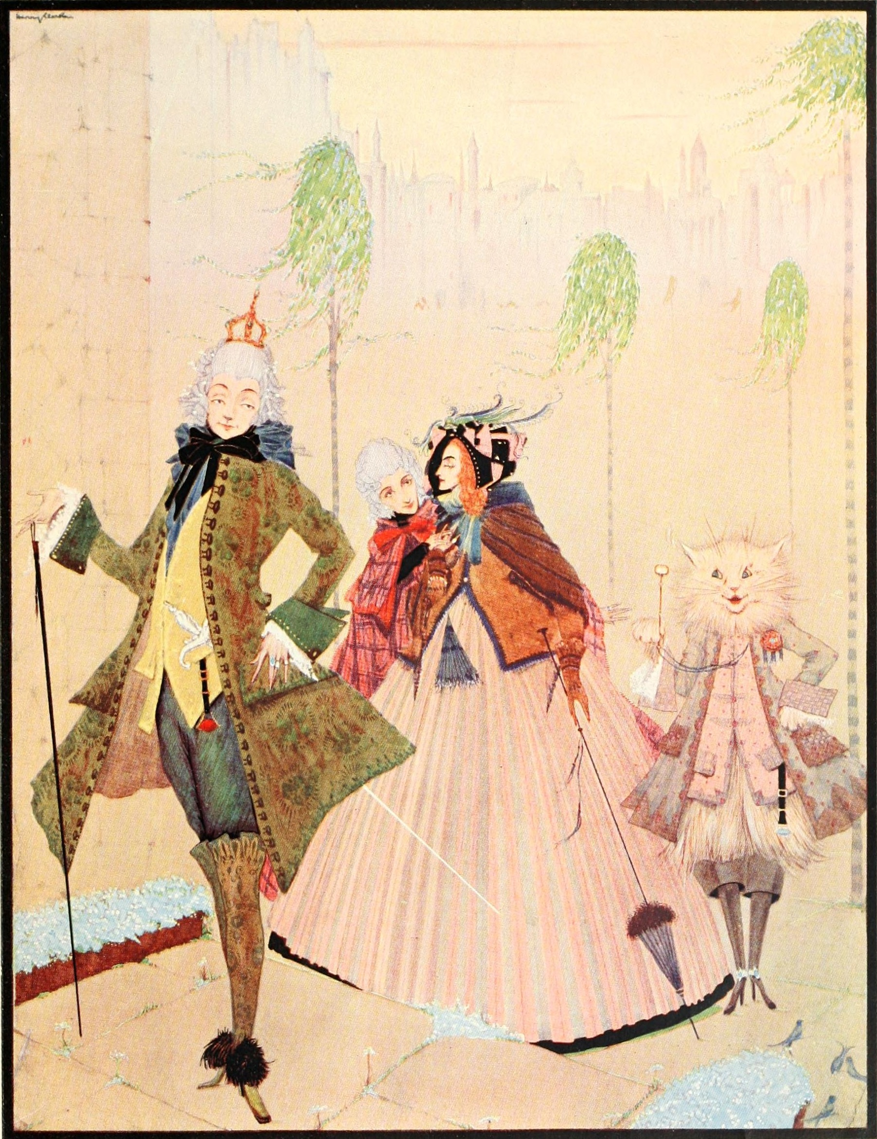 Illustration in The fairy tales of Charles Perrault Perrault, Charles, 1628-1703; Clarke, Harry, 1889-1931, illustrator. London: Harrap (1922)